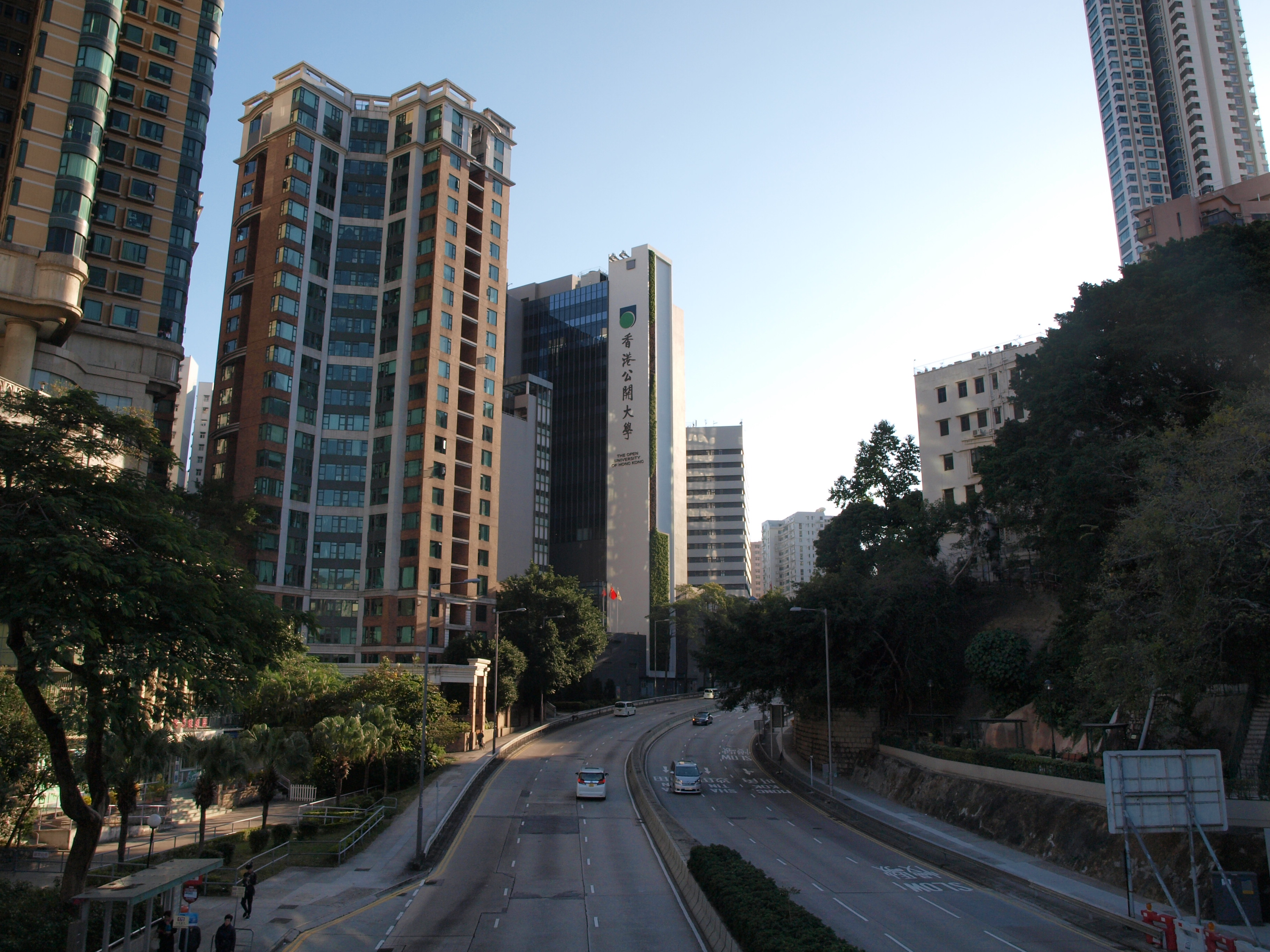 Princess Margaret Road in January 2018.